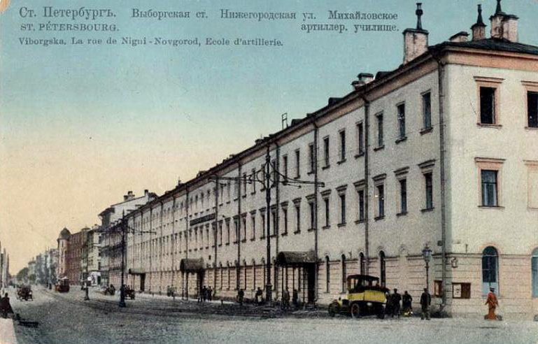 The Mikhailovskoye artillery school (Saint-Petersburg, Russia)